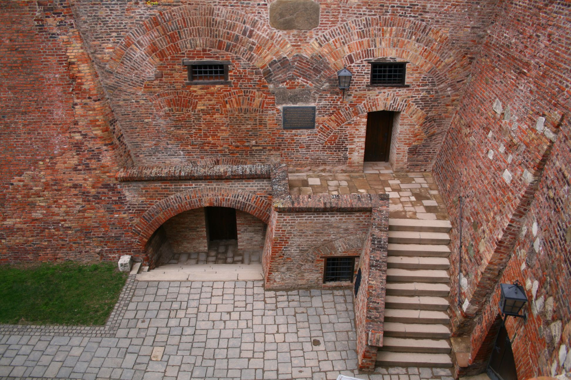 to the casemates